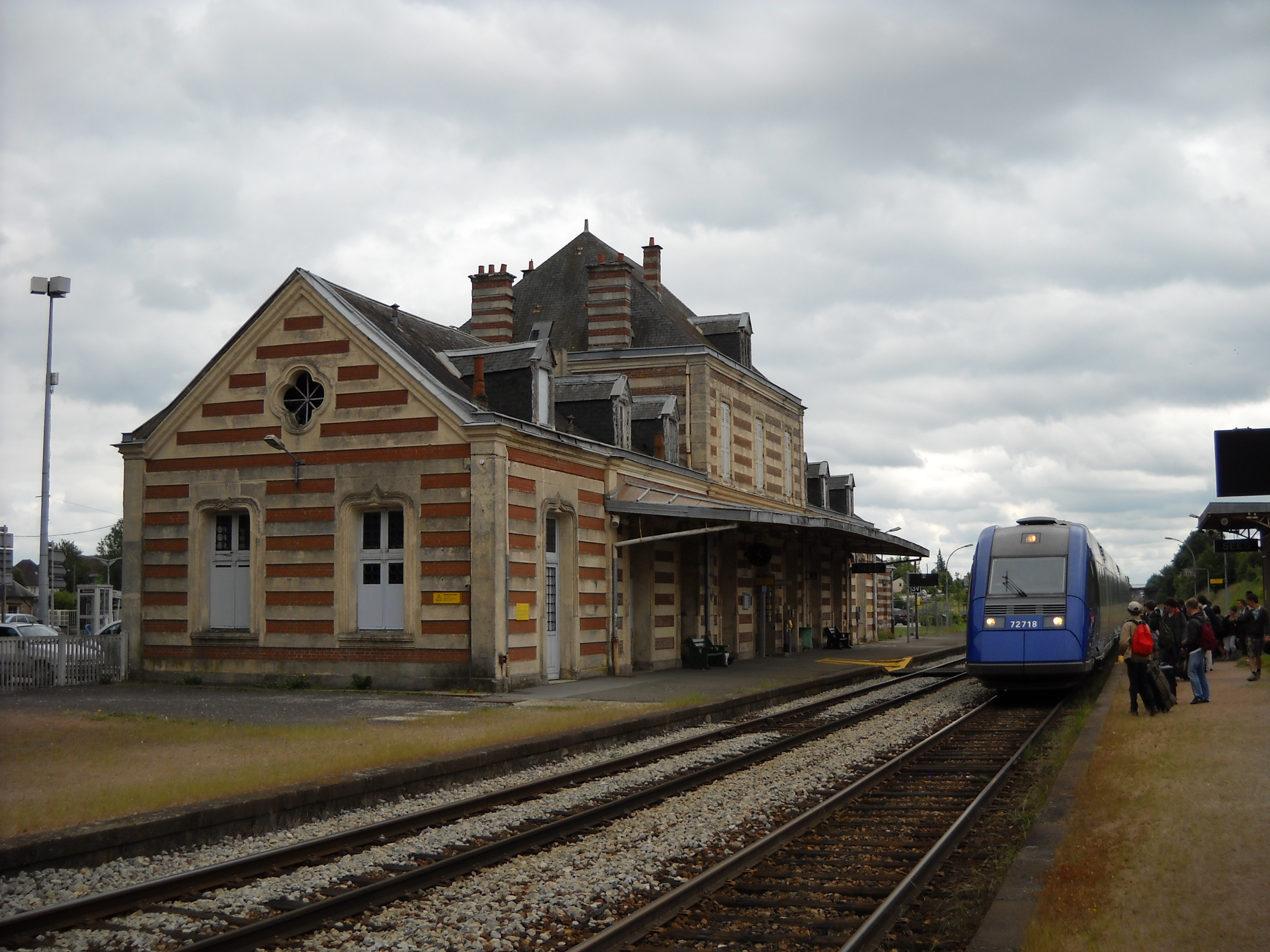 The train station of Sées, Orne, France.